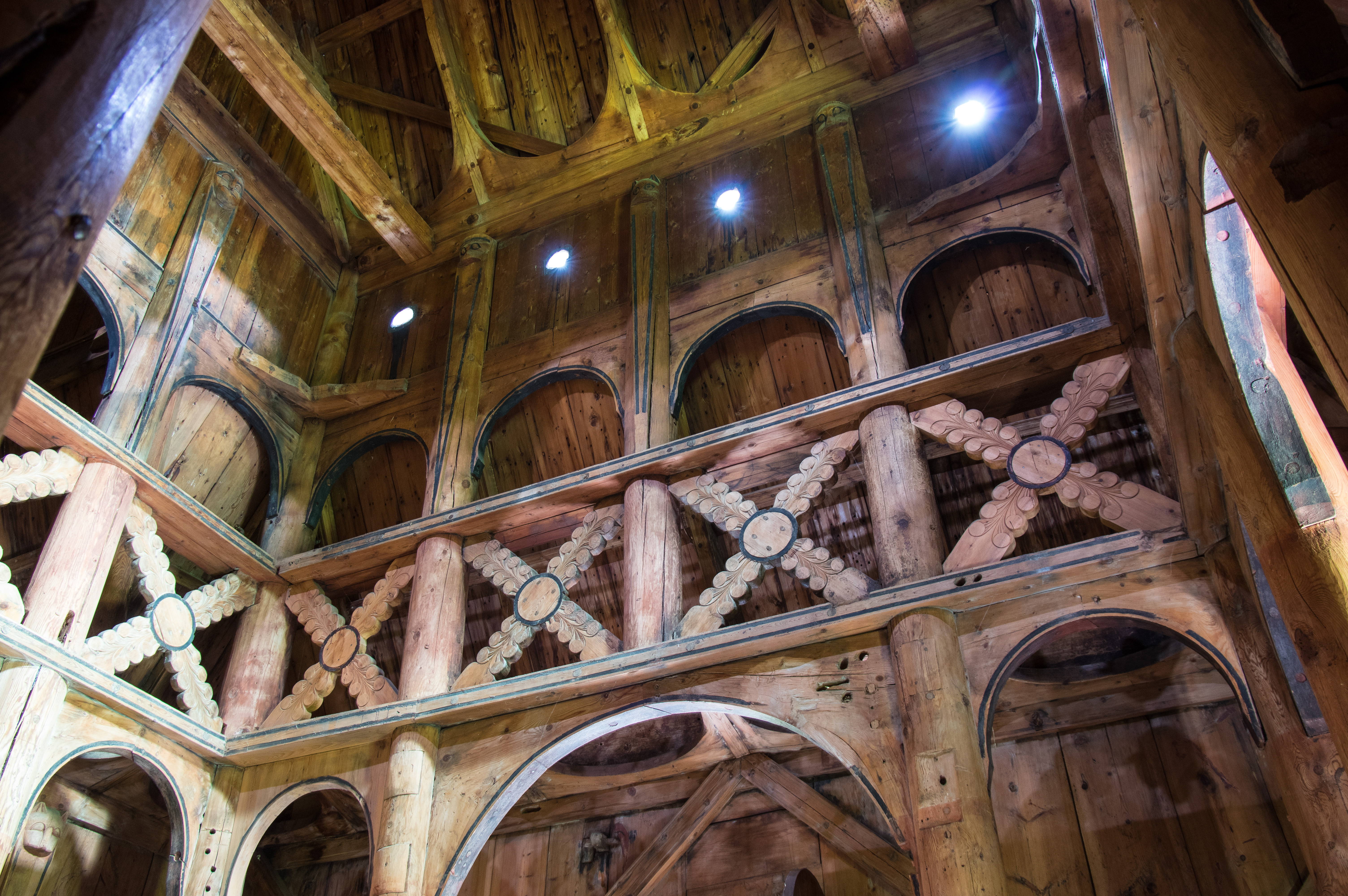 Borgund Stave Church (Norwegian: Borgund stavkyrkje) is a stave church built sometime between 1180 and 1250 AD, located in the village of Borgund in the municipality of Lærdal in Sogn og Fjordane county, Norway.